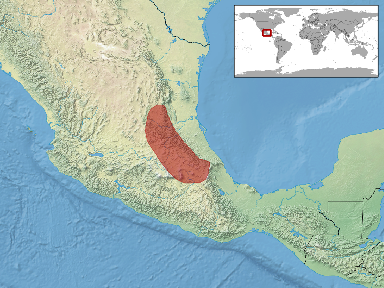 geographic distribution of Gerrhonotus ophiurus (Native: Mexico)